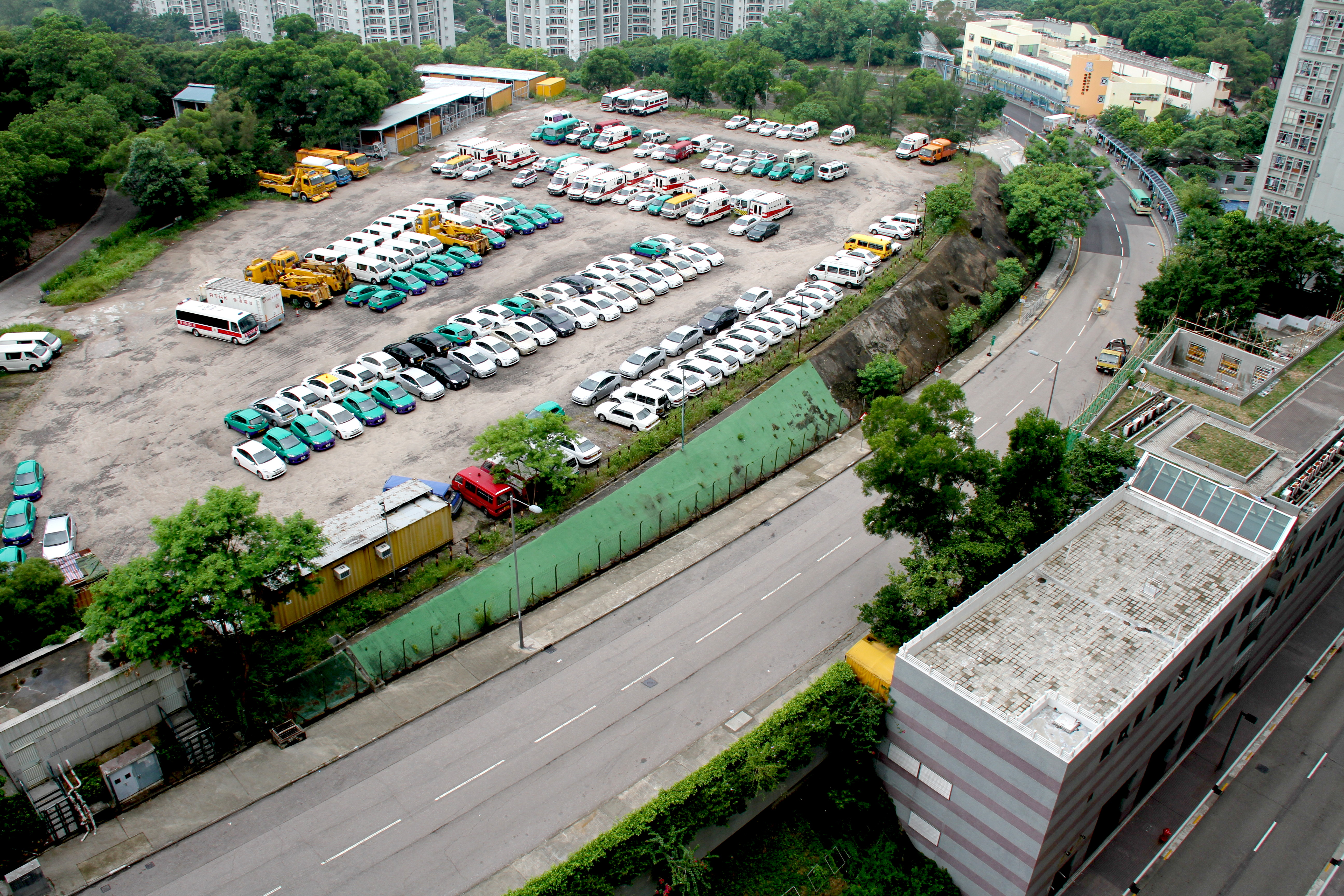 Sin Fat Road, Lam Tin